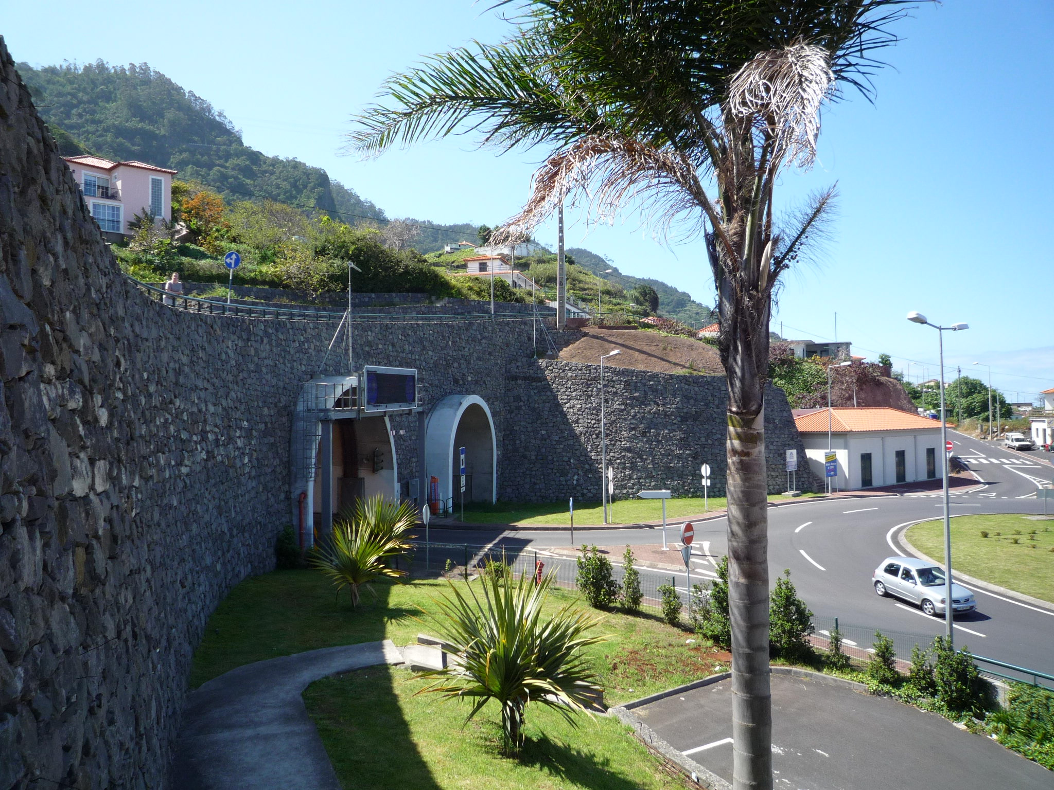 The portal of the Cortado Tunnel in Faial, Madeira. At 3,168 metres (3,465 yd) long, this is the longest Portuguese tunnel.